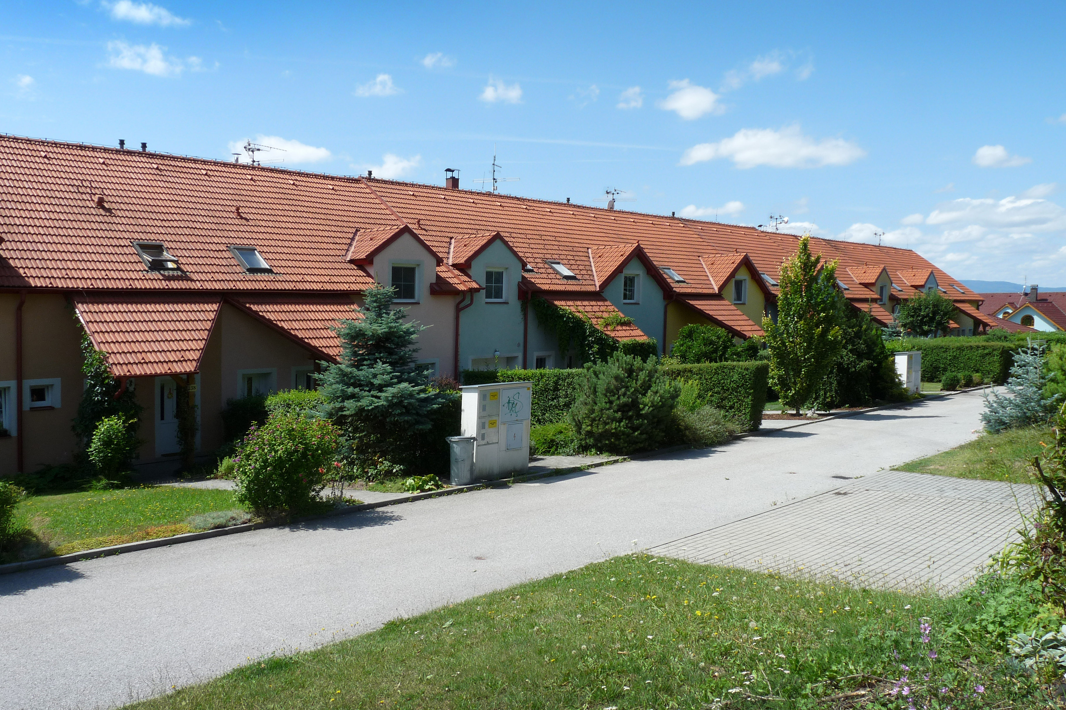 Terraced houses in Hodějovická street in the village of Nové Hodějovice, part of České Budějovice, Czech Republic. Česky: Řadové domy vHodějovické ulici v Nových Hodějovicích, části Českých Budějovic.